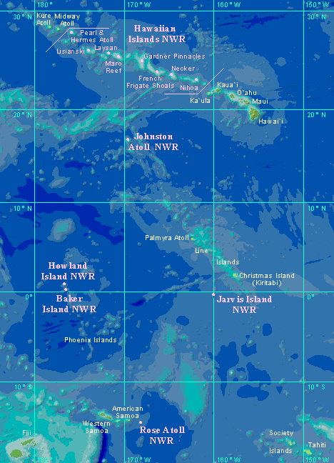 US Hawaiian and Remote Pacific Islands National Wildlife Refuge (NWR) map, illustrating the relative locations of US Pacific islands.